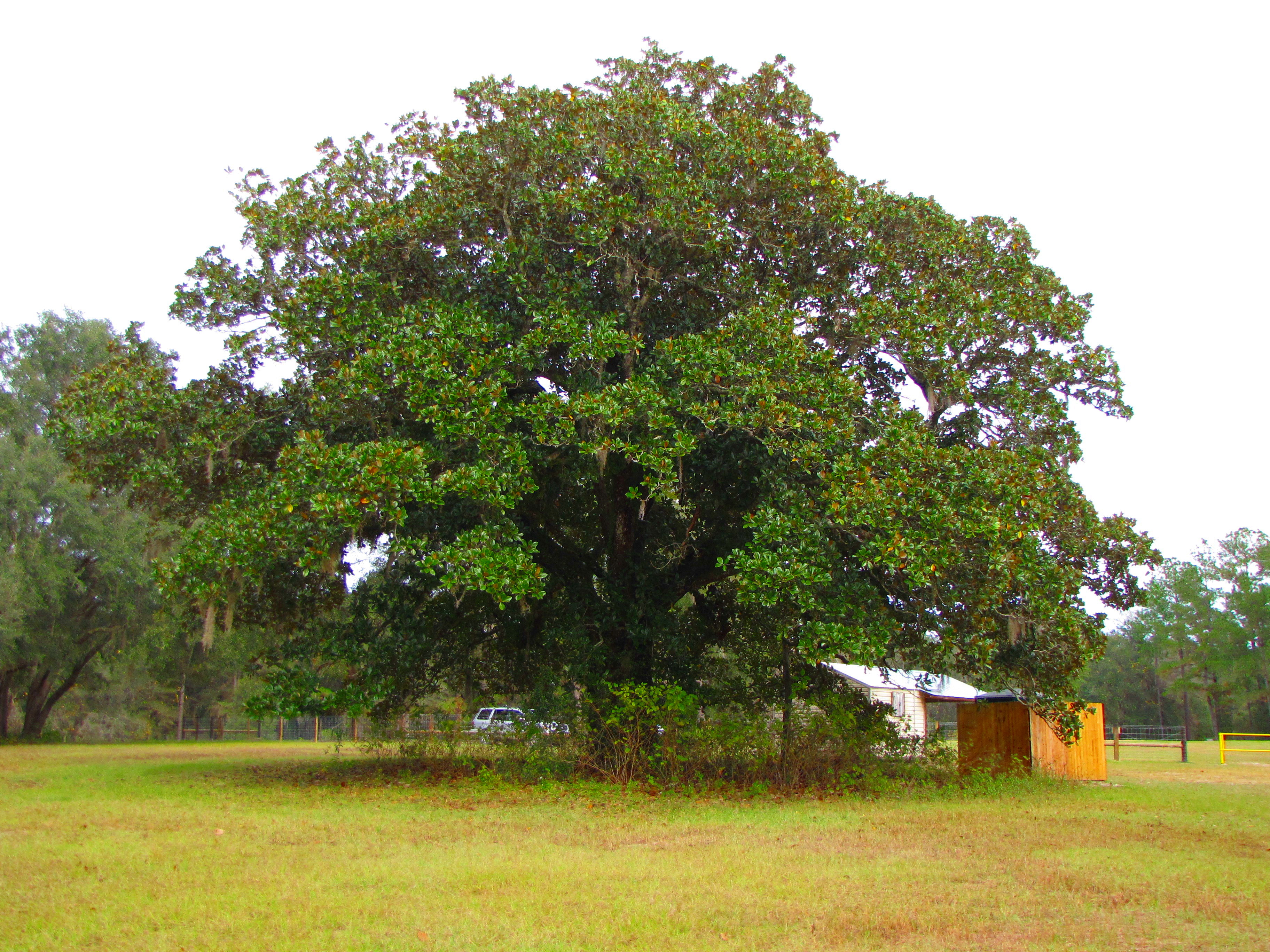 Magnolia grandiflora Ocklawaha Restoration Area Marion County, Florida